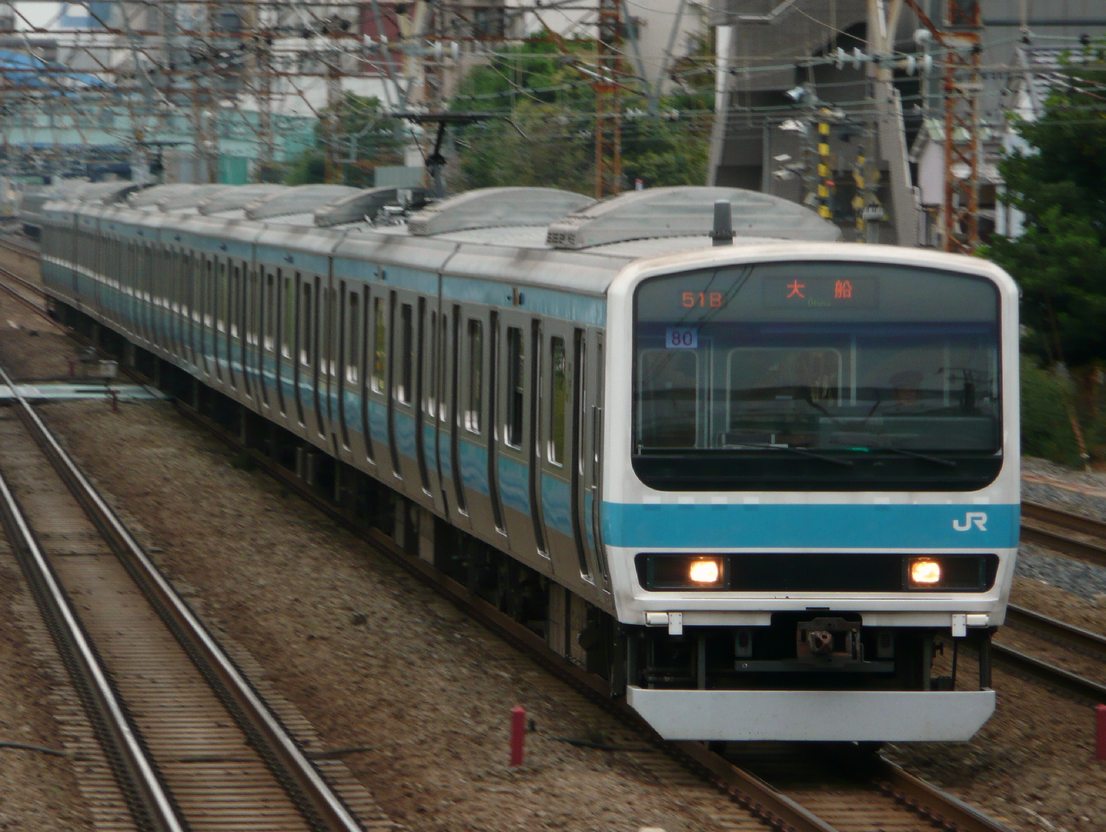 JR East 209-500 series EMU in Keihin-Tohoku Line livery